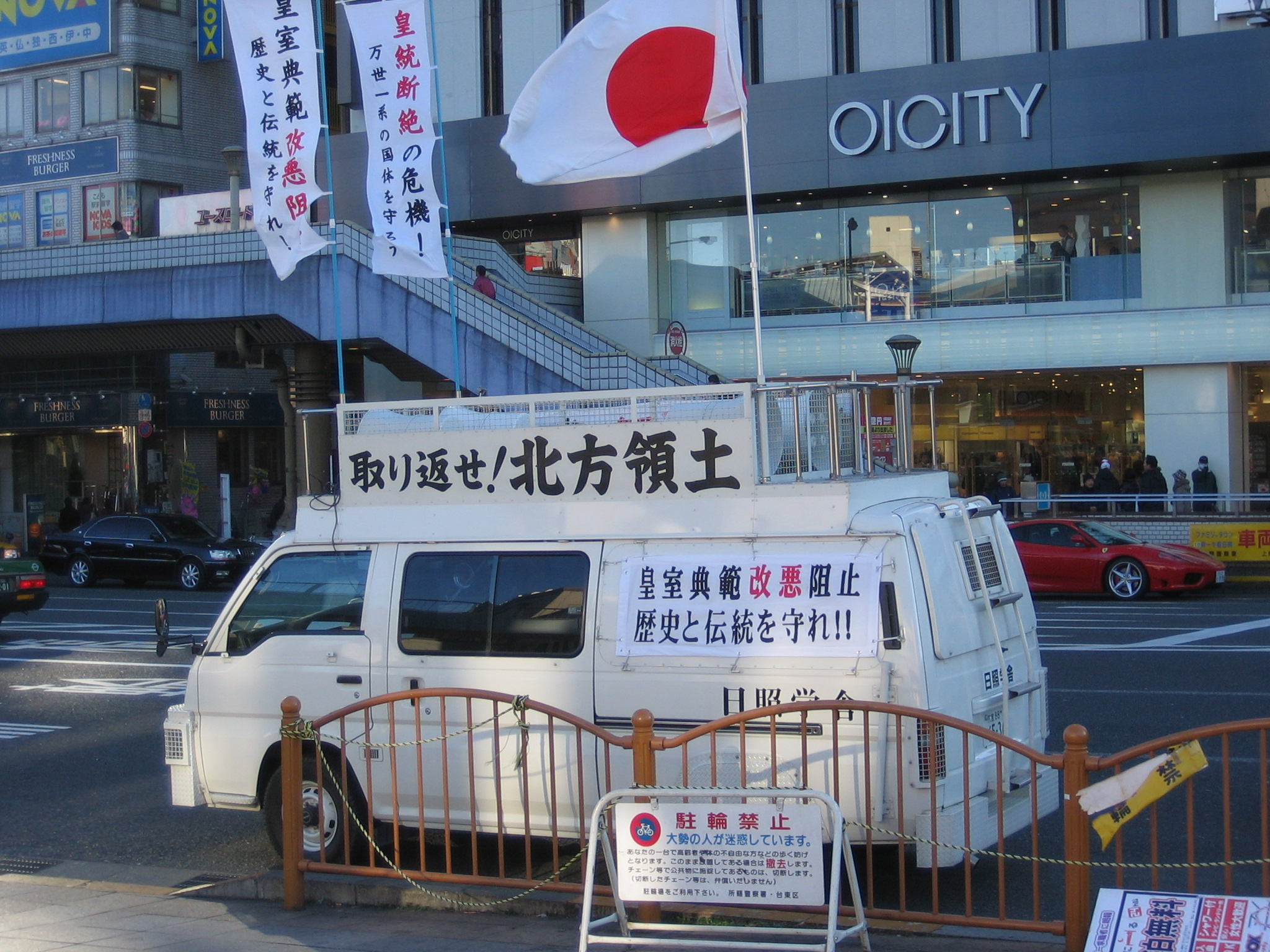 A van covered with propaganda for Japanese sovereignty over the Kuril Islands (北方領土) in front of a shopping mall.